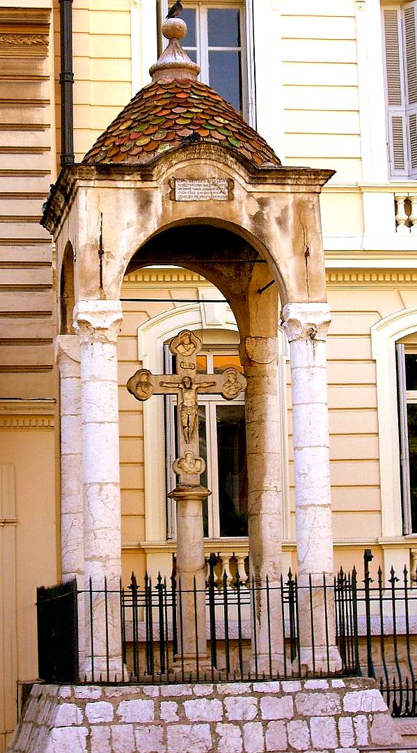 The Croix de Marbre à Nice, France.